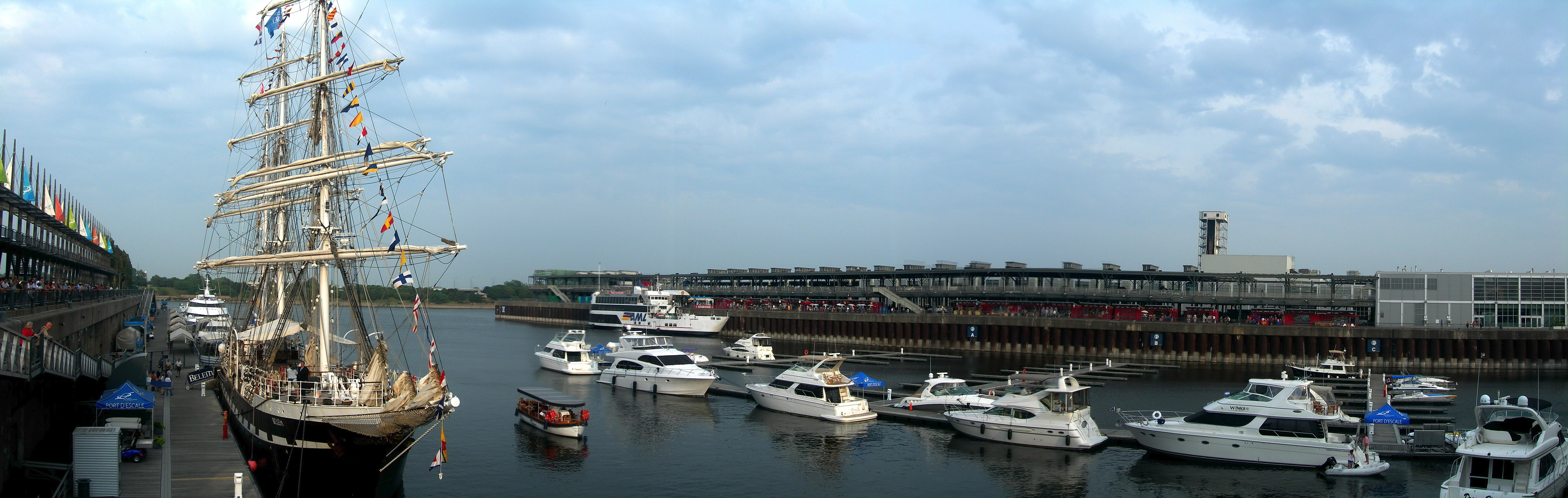 Montreal Old Port and Belem